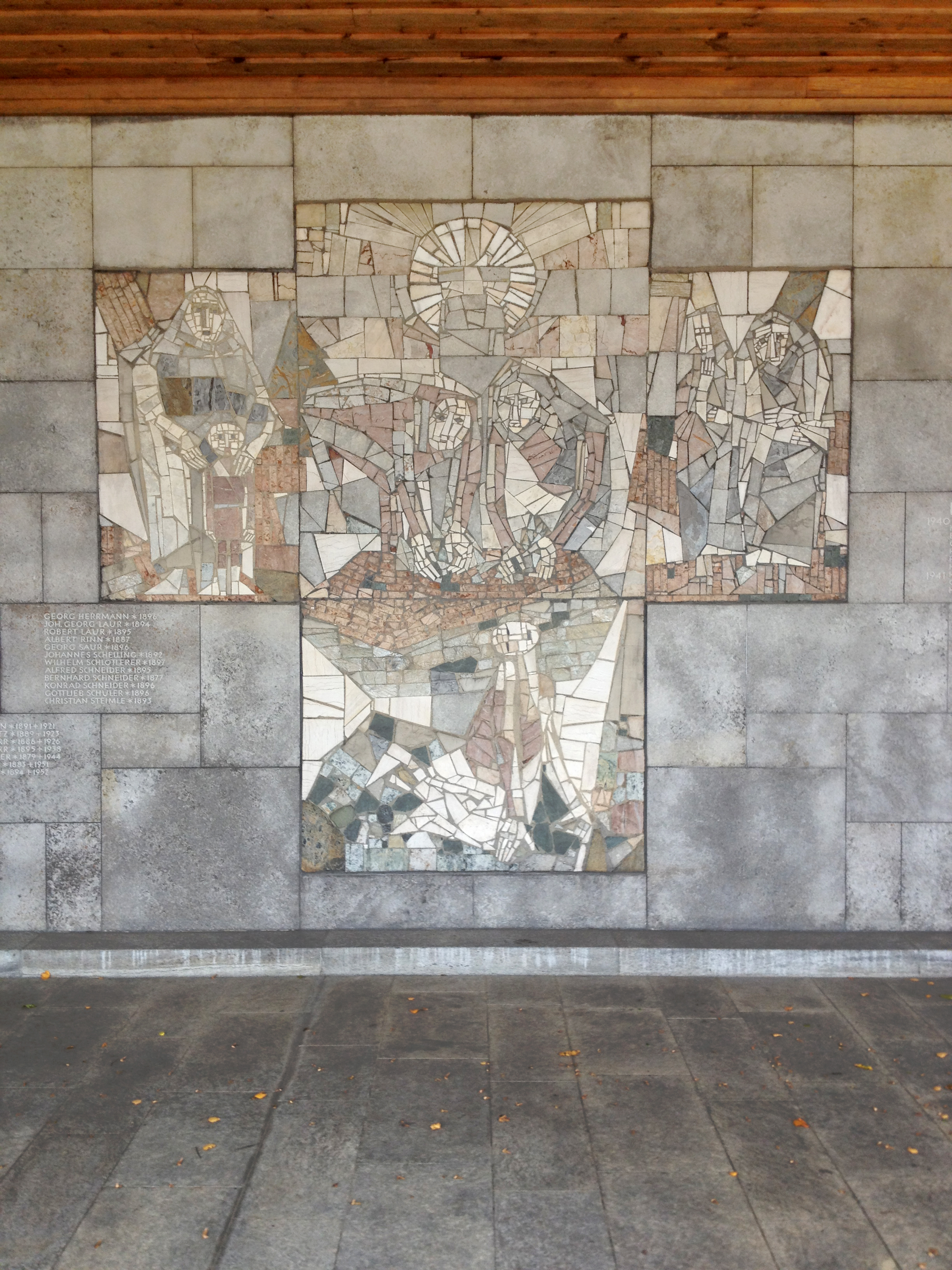 World War II Monument, cemetary chapel in Nehren (Baden-Württemberg), mosaic by Günter Hildebrand, 1964